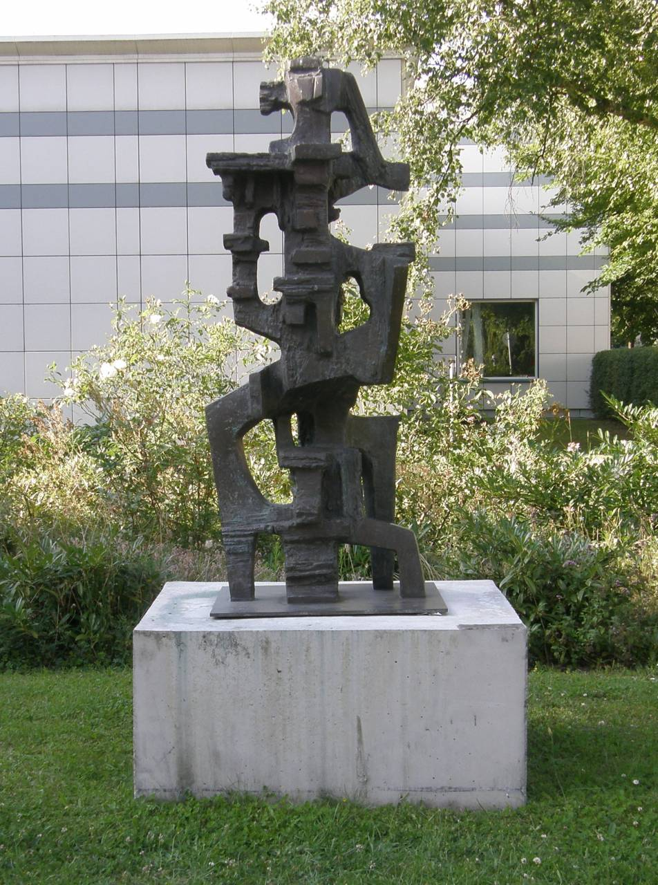 Sculpture "Mädchen von Yukatan" by Erich Fritz Reuter. Skulpturengarten AVK, Rubensstr. 125, Berlin (Schöneberg)